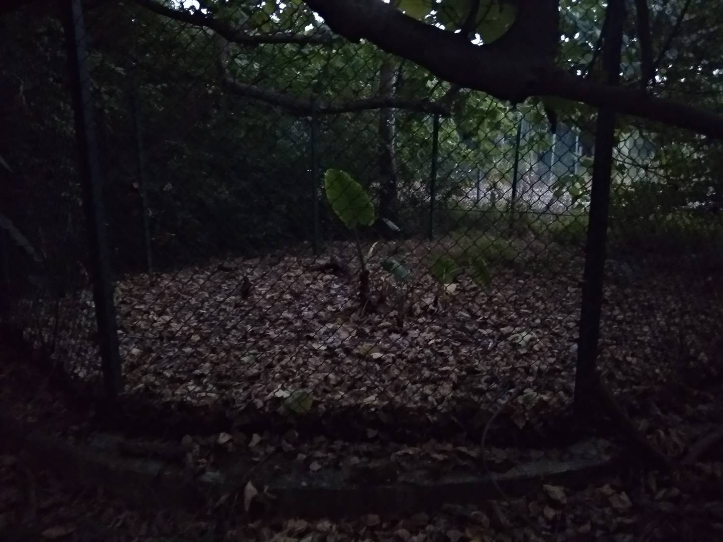 Hot Tub of Lyemun Barracks